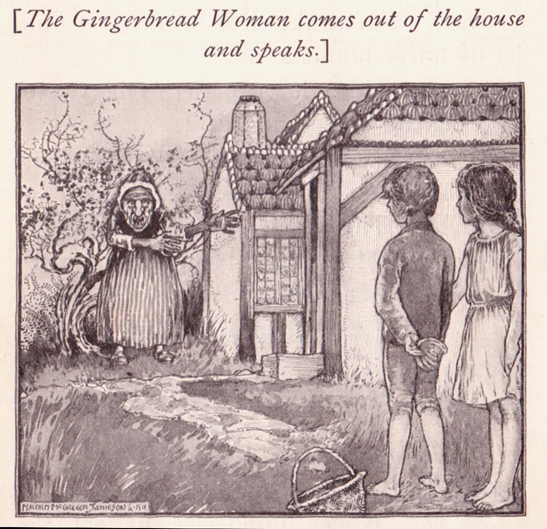 Public domain image from the book, Dramatic Reader For Lower Grades, by Florence Holbrook, Copyright 1911, page 118. This is Hansel and Gretel meeting the witch at the gingerbread house. Flickr data on 2011-08-16: Tags: image, illustration, vintage, book, copyright free, public domain, children's books, Hansel and Gretel License: CC BY 2.0 User: perpetualplum Sue Clark